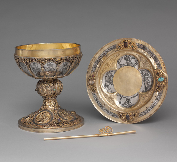 Chalice, Paten and Straw. Silver, gilded silver, niello, and jewels. Metropolitan Museum of Art, New York, The Cloisters Collection, 1947 (Accession 47.101.26–.28)